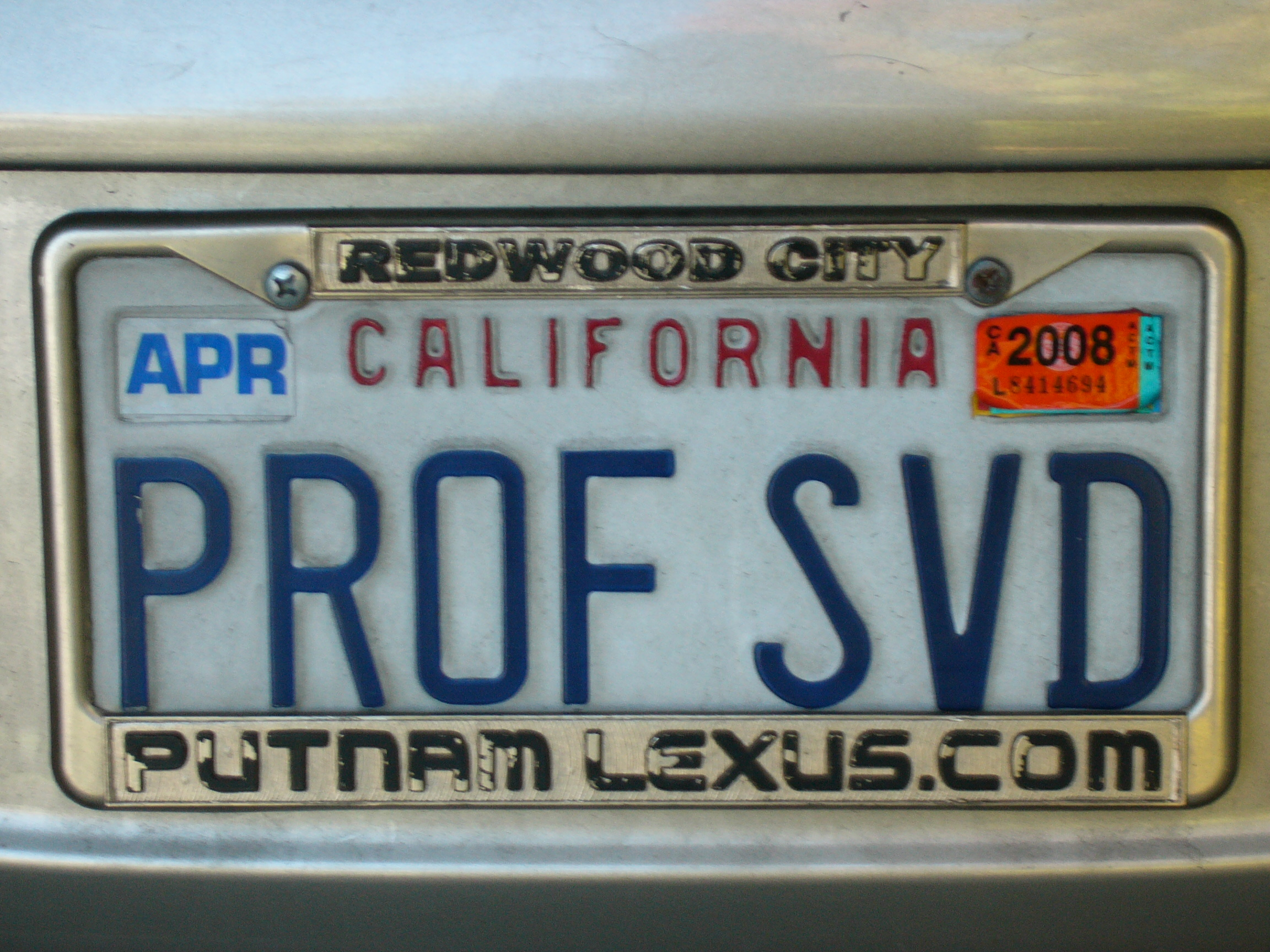 License Plate of Gene Golub